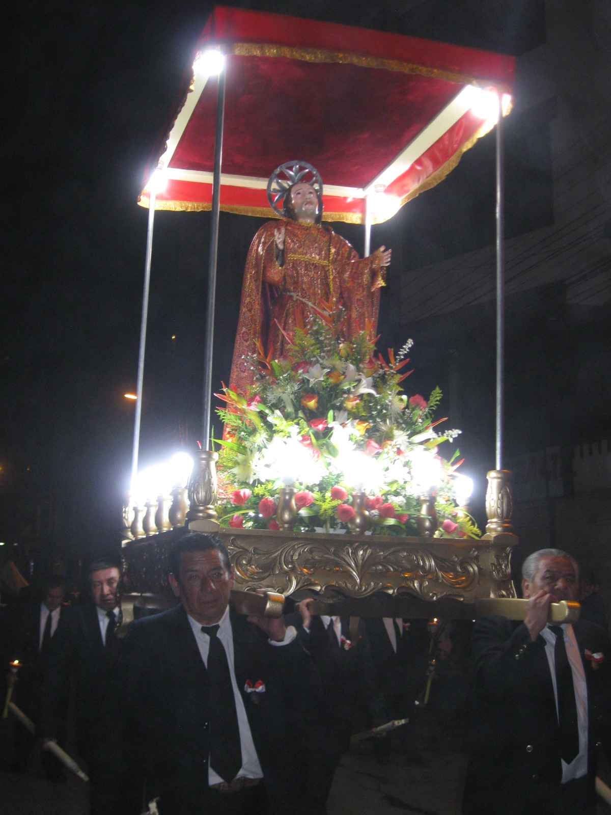 San Juan Evangelista